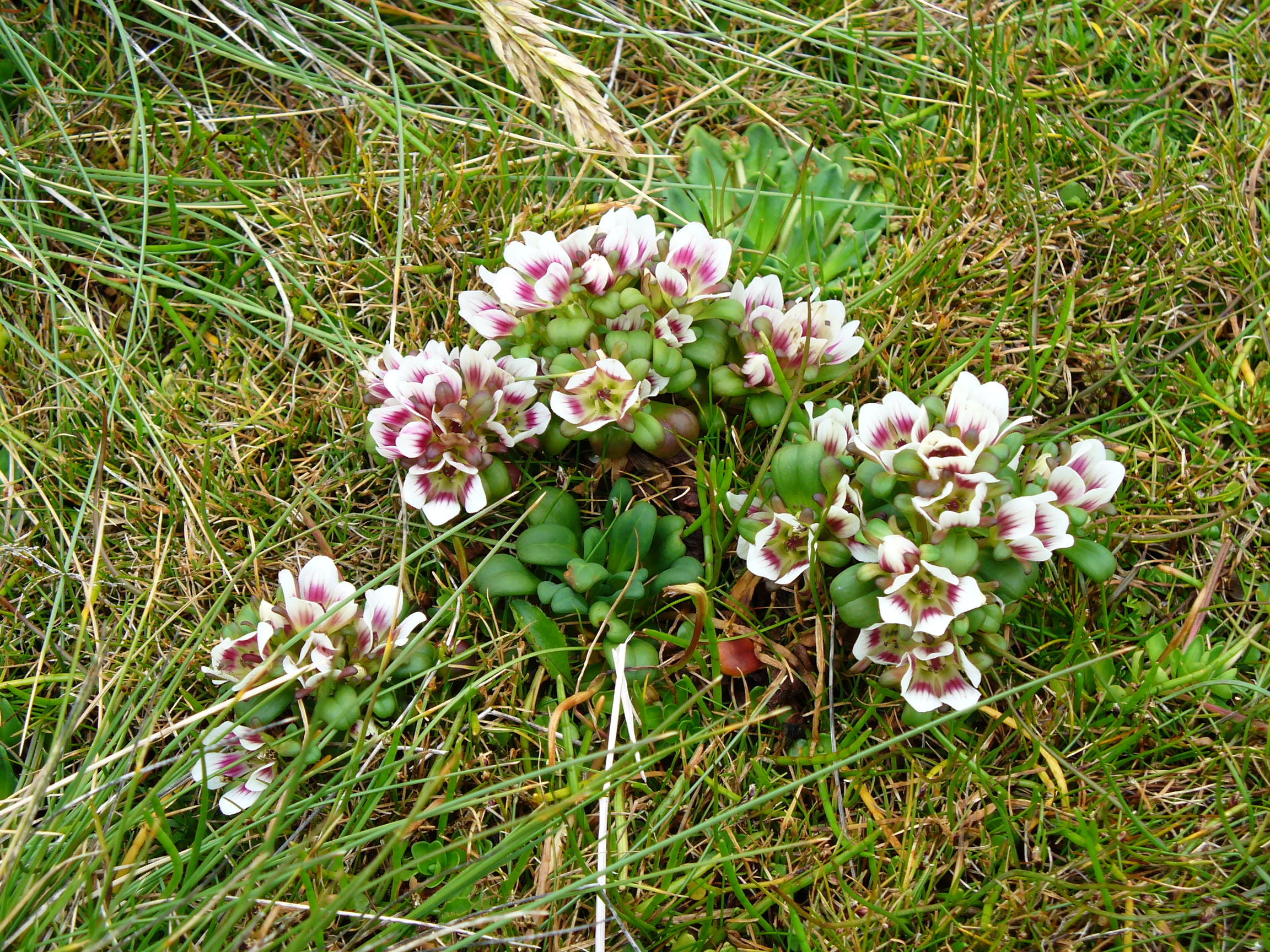 Gentianella concinna, a companion plant in megaherb communities, growing on Enderby Island, one of the Auckland Islands, sub-antarctic islands of New Zealand.